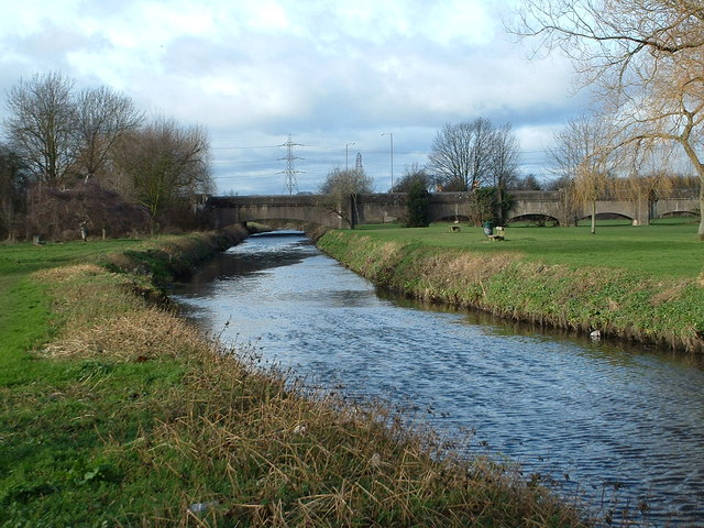 River Cole, Coleshill This is a view of the River Cole in Coleshill.